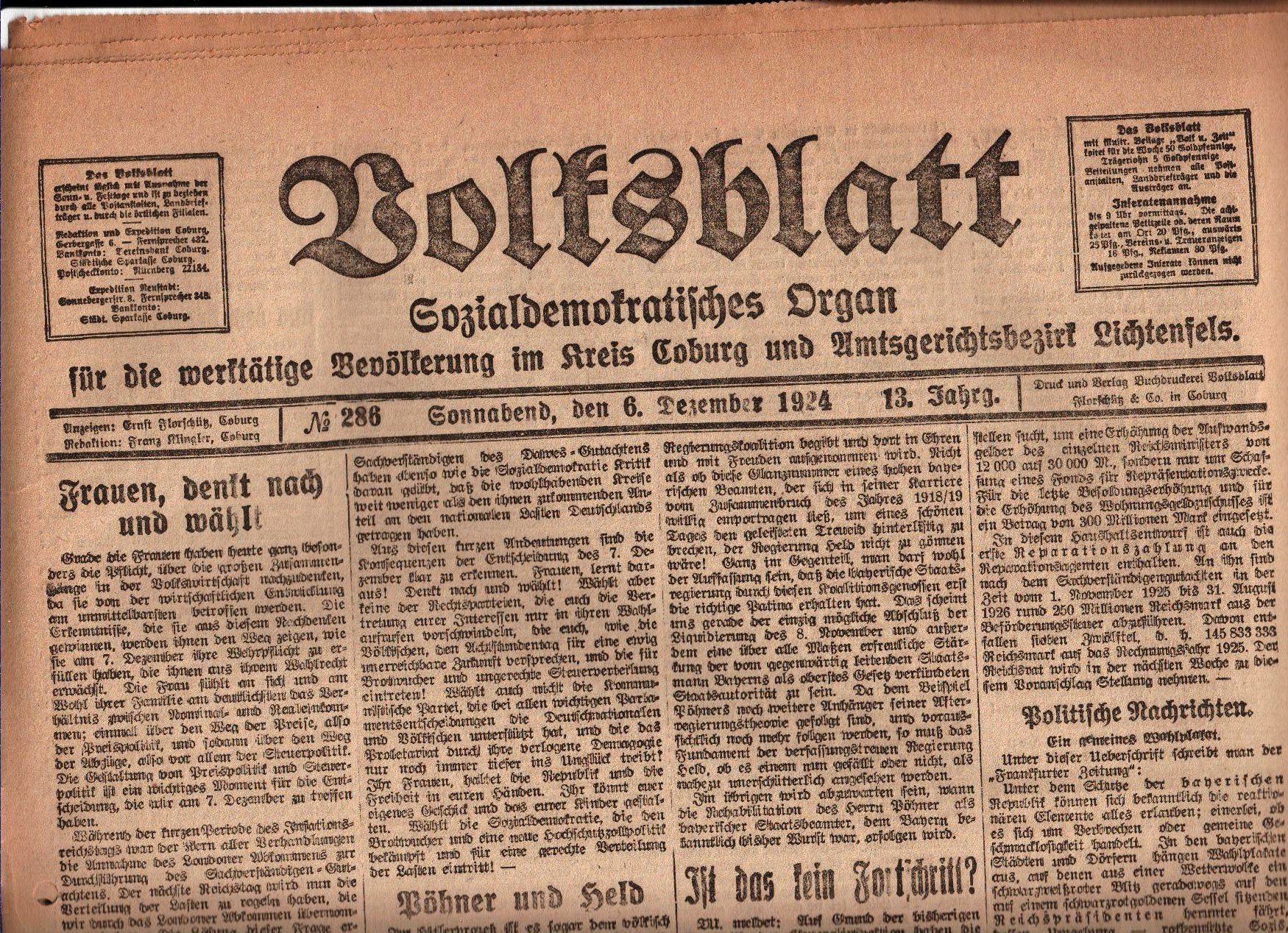 Coburger Volksblatt 1924